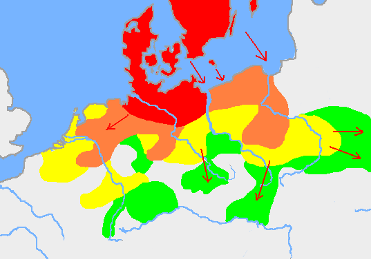 Based on p. 108 in the Penguin Atlas of World History, volume 1, from the Beginning to the Eve of the French Revolution. 1988. ISBN 0-14-051054-0 The map is originally from . The map is drawn on User:Dbachmann's blank map: Image:Europe plain rivers.png